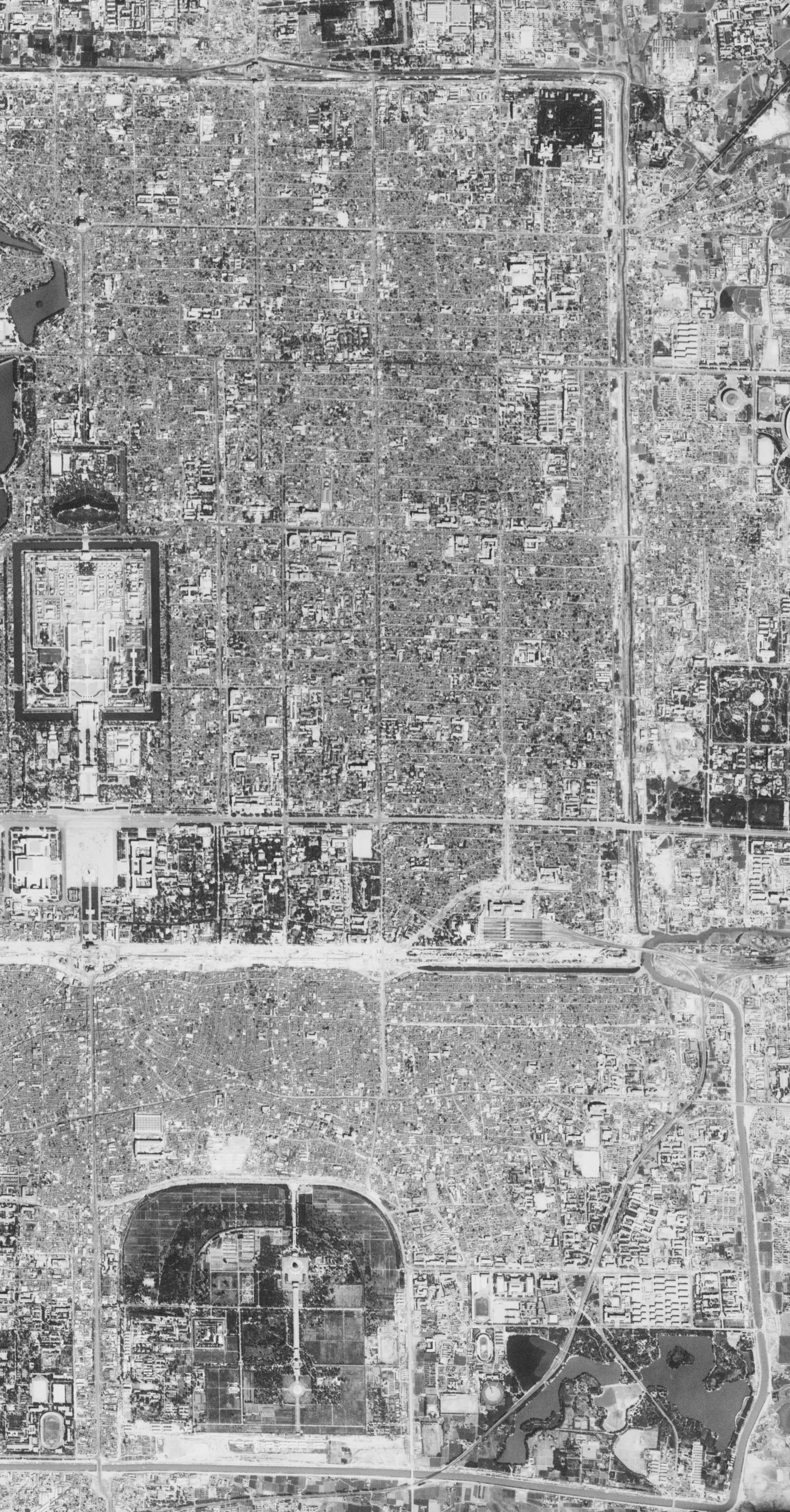 Fill later